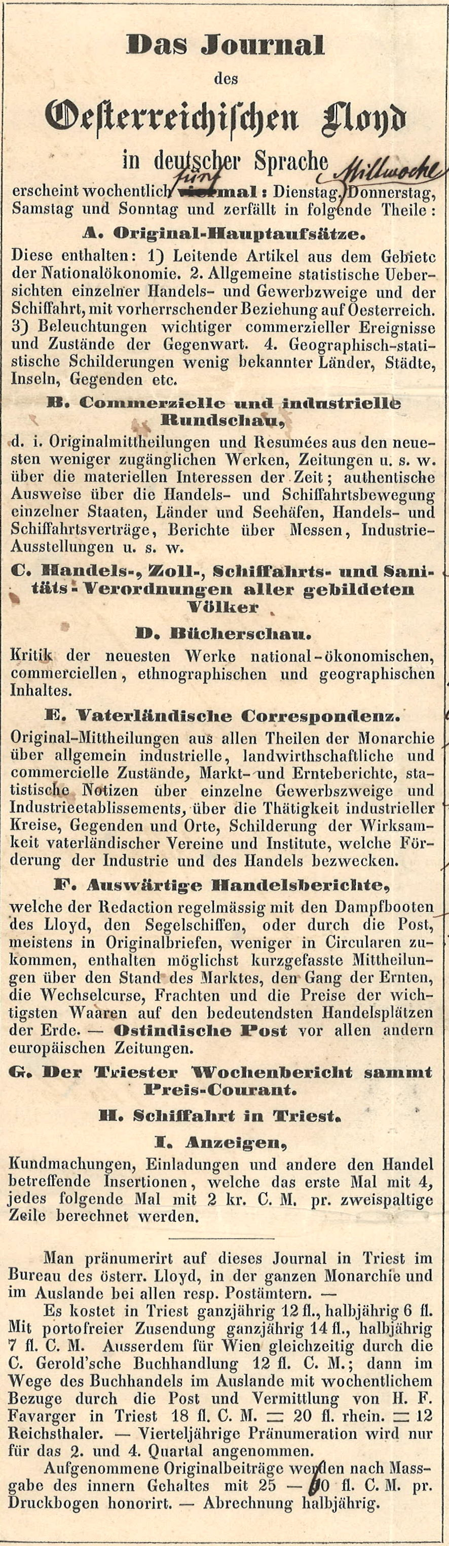 Advertisement for the Das Journal des Österreichnischen Lloyd (1847)